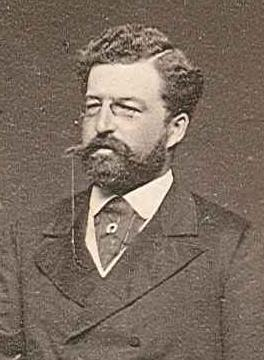 Princ Philipp of Coburg